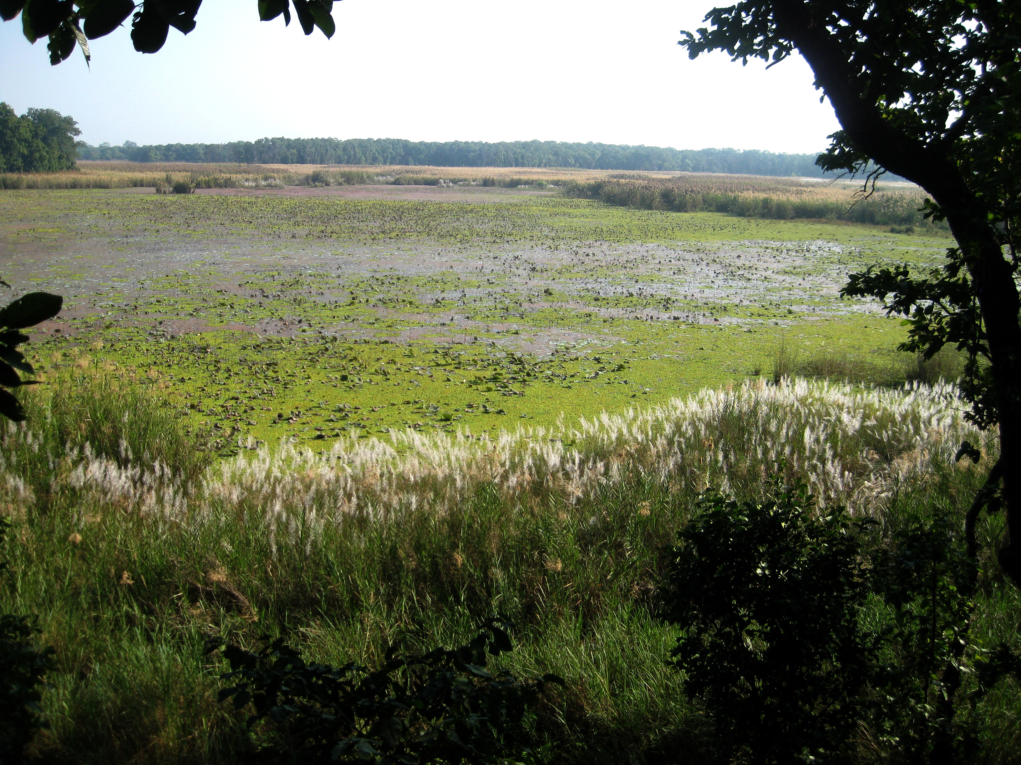 Ranitaal lake inside Suklaphata Wildlife Reserve